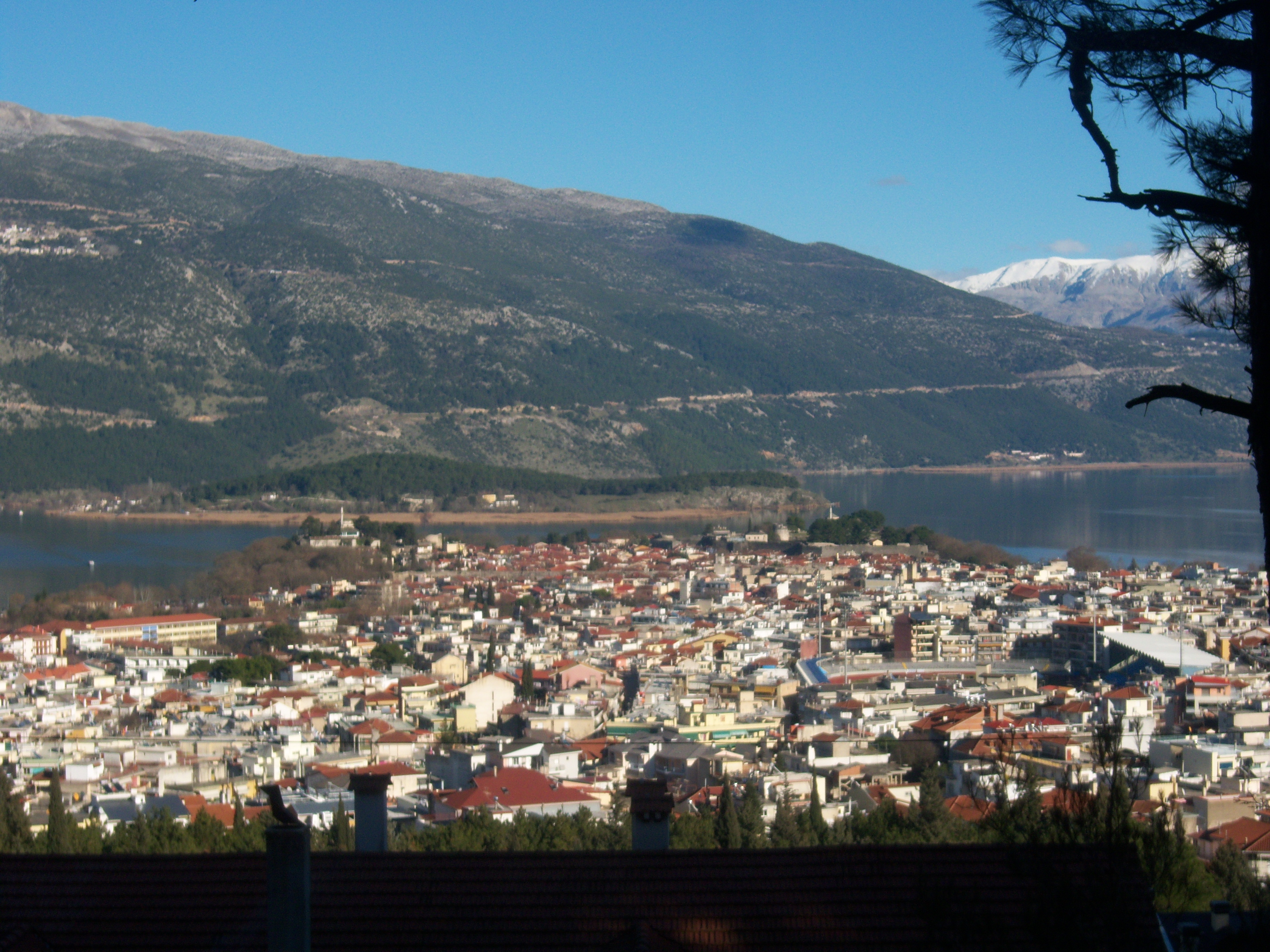 This is a photography of Natura 2000 protected area with ID GR2130005